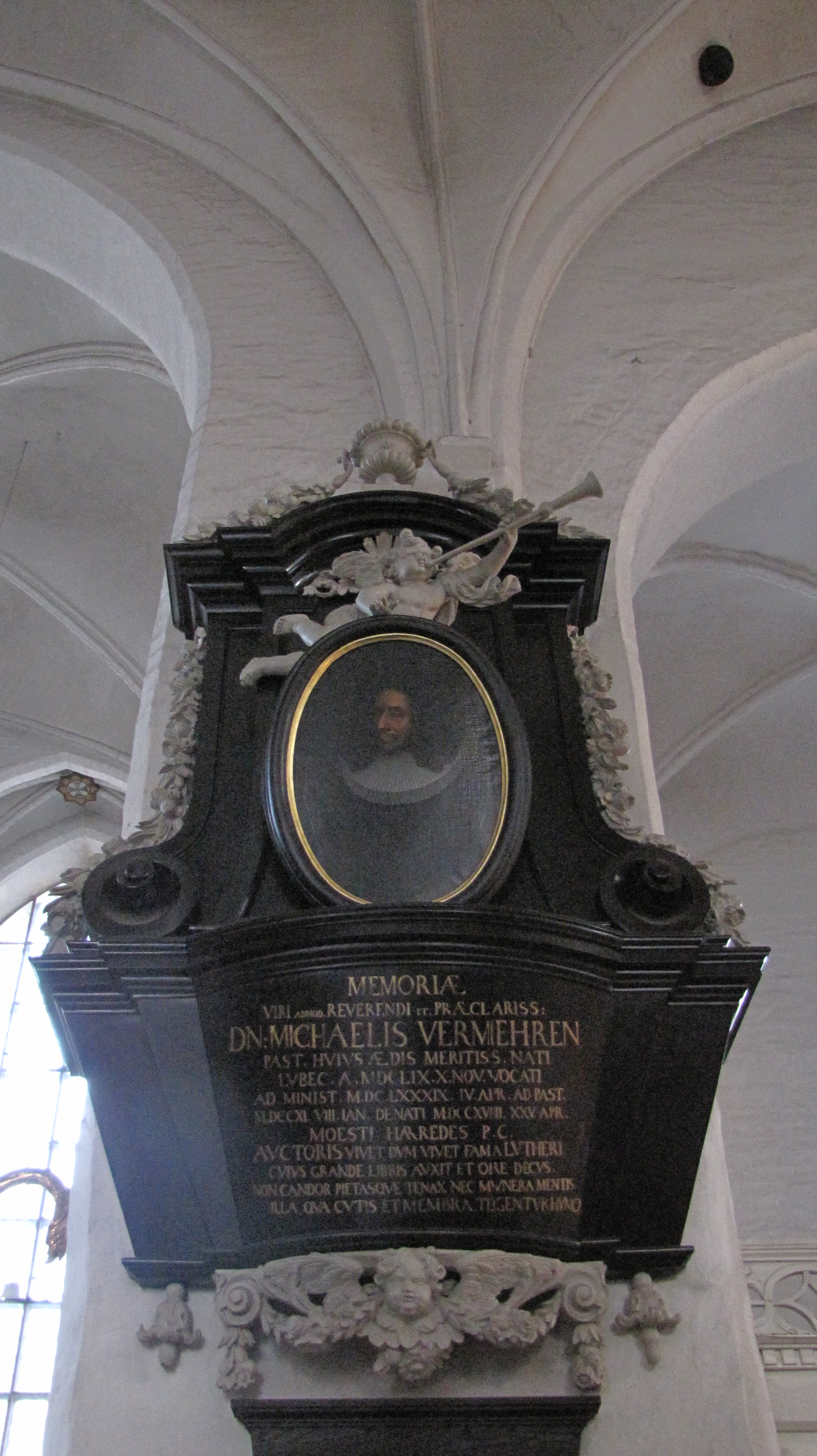 Epitaph for Michael Vermehren (Pastor)